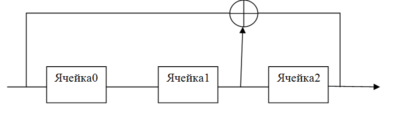 MiniRegister